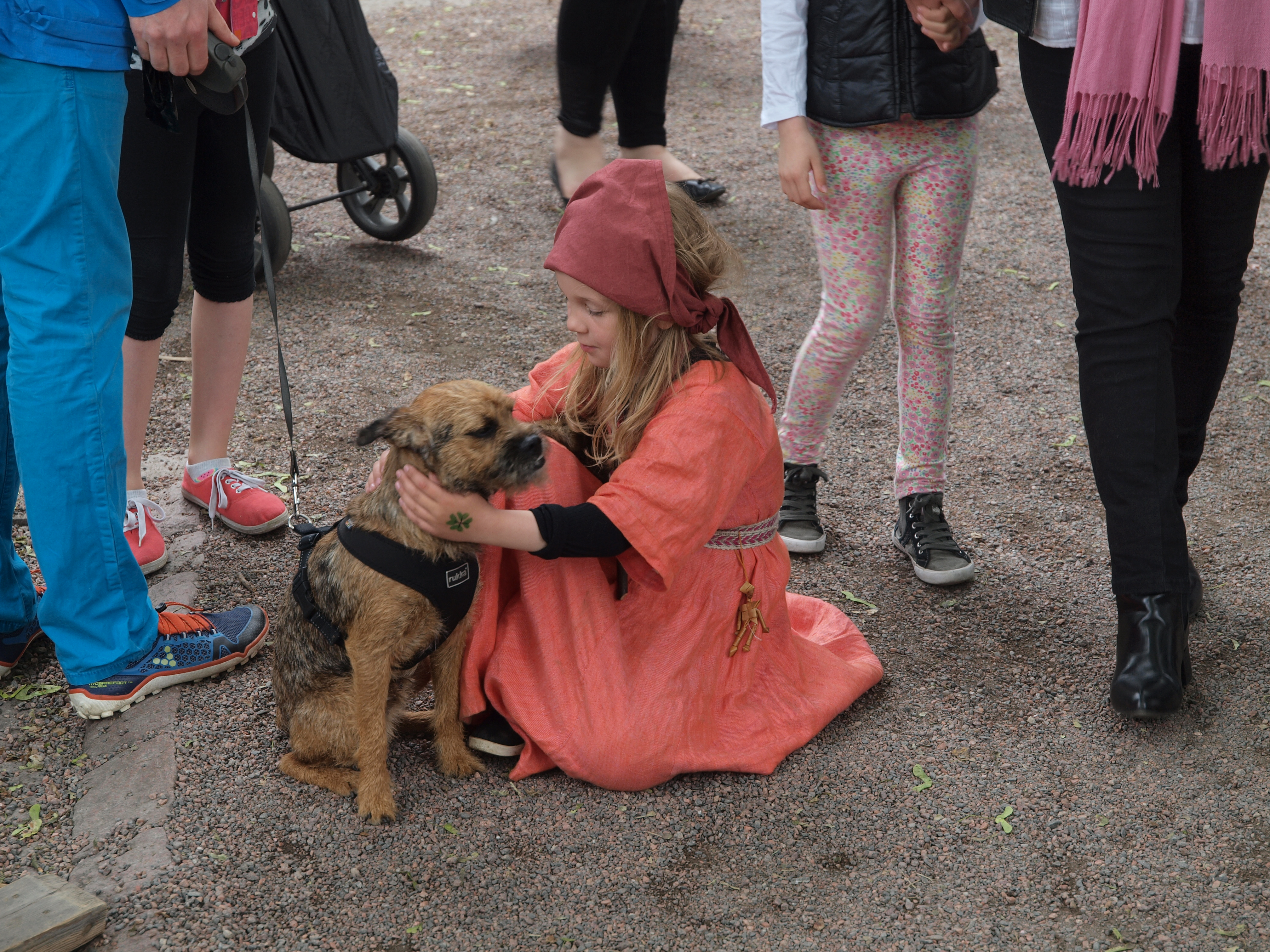 A girl dressed as a medieval maiden caressing a dog at the Turku Medieval market 2015 in central Turku, Finland.